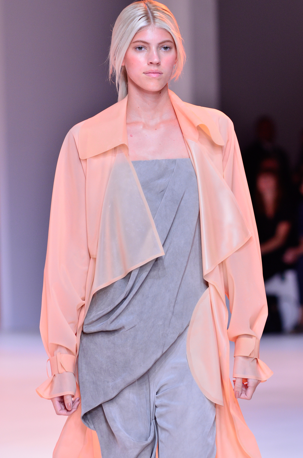 Devon Windsor walking for Porsche Design.